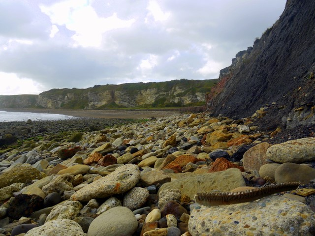 Blast Beach. The clean-up of colliery waste has been extensive but this northern corner of the beach still retains a bank of coal waste seen on the right. The metal-toothed object in the foreground is part of a mine conveyor belt. Old bricks and concrete have been rounded by the sea and provide bright splashes of colour among the natural rocks and shiny lumps of coal. Many of my photographs here are a tribute to, and inspired by, the work of Sirkka-Liisa Konttinen who documented the changes between 1998 and 2002 in her exhibition of stunning photographs: 'The Coal Coast' Here's another from further south 1540225